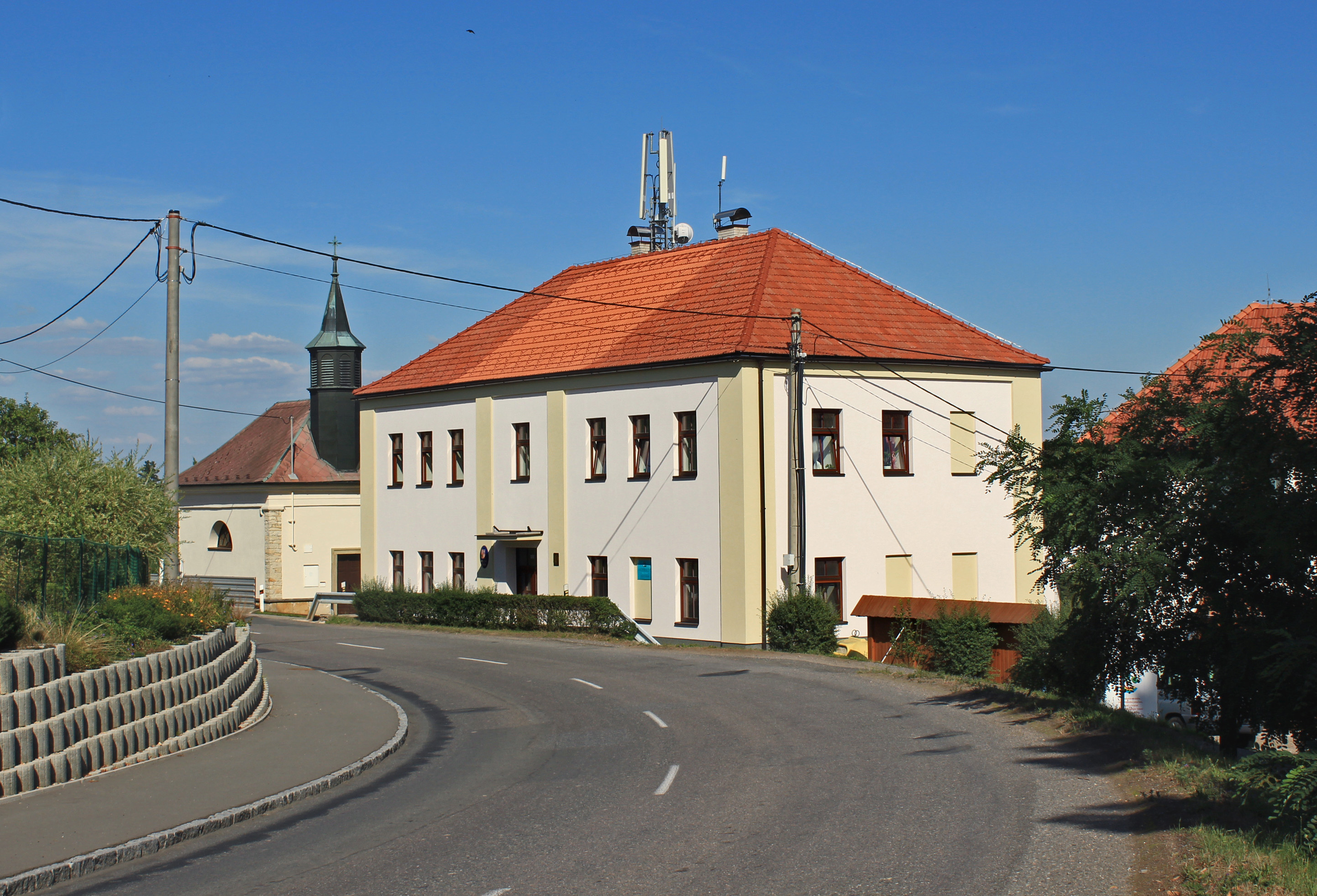 Municipal office in Desná, Czech Republic.